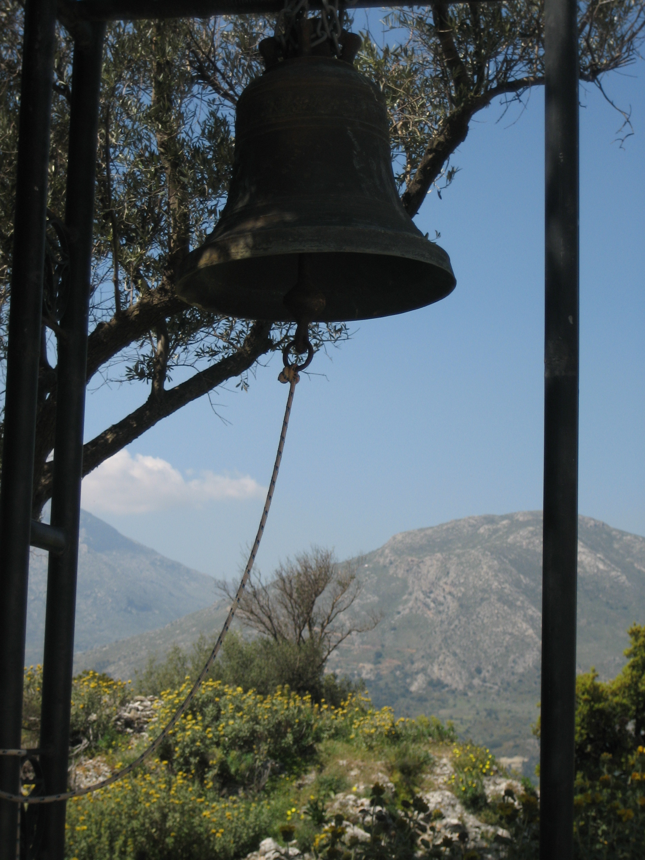 View of the mountains outside Fourfouras village in Rethimno prefecture, Crete